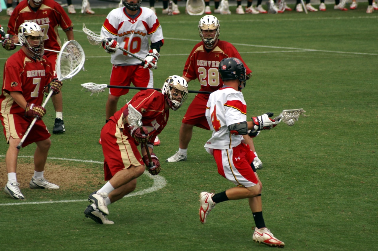 Division I lacrosse game between the University of Denver Pioneers and the Maryland Terrapins (at Maryland)